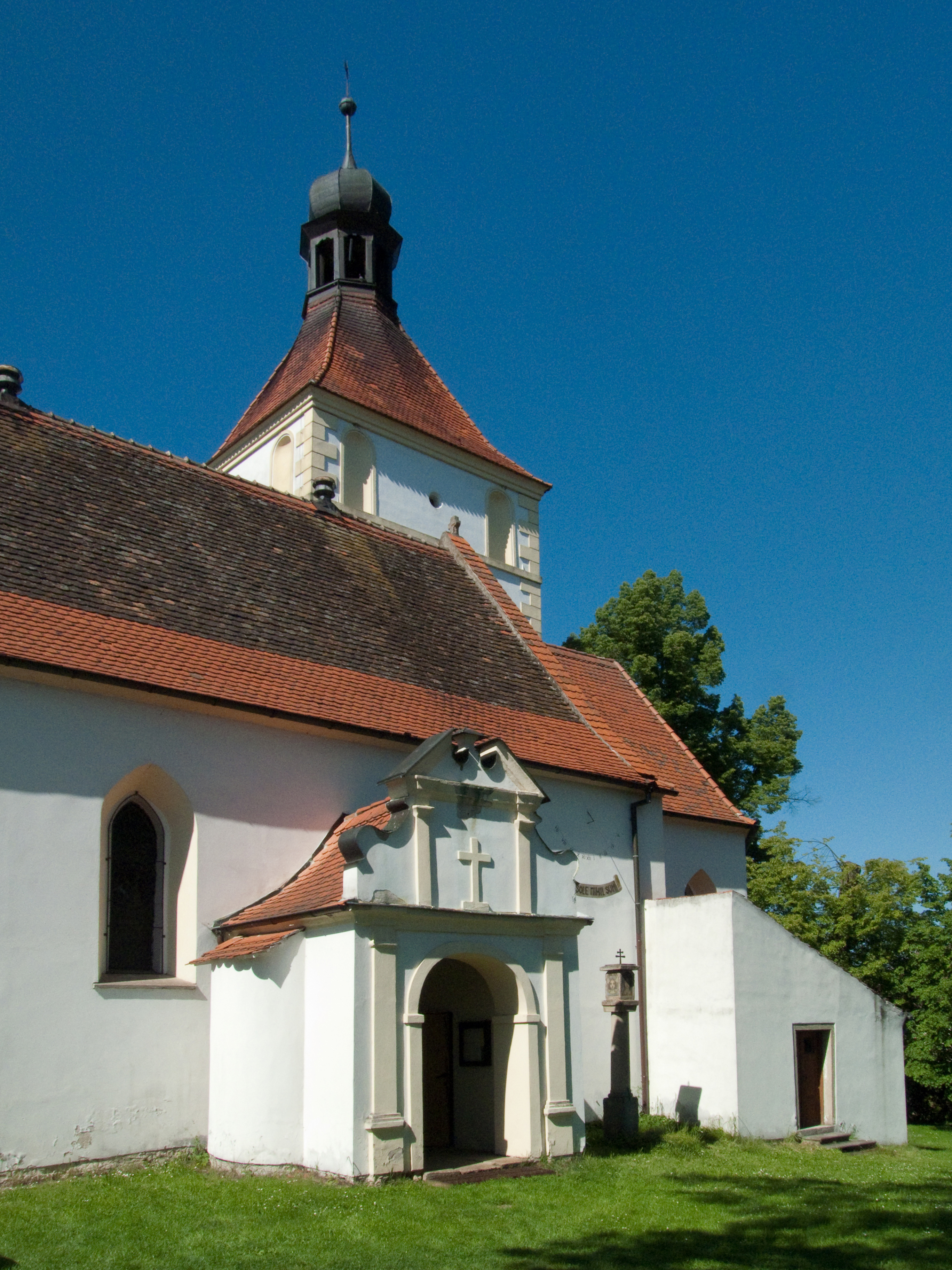 St. Lawrence Church in the village of Dírná, Tábor district, Czech Republic